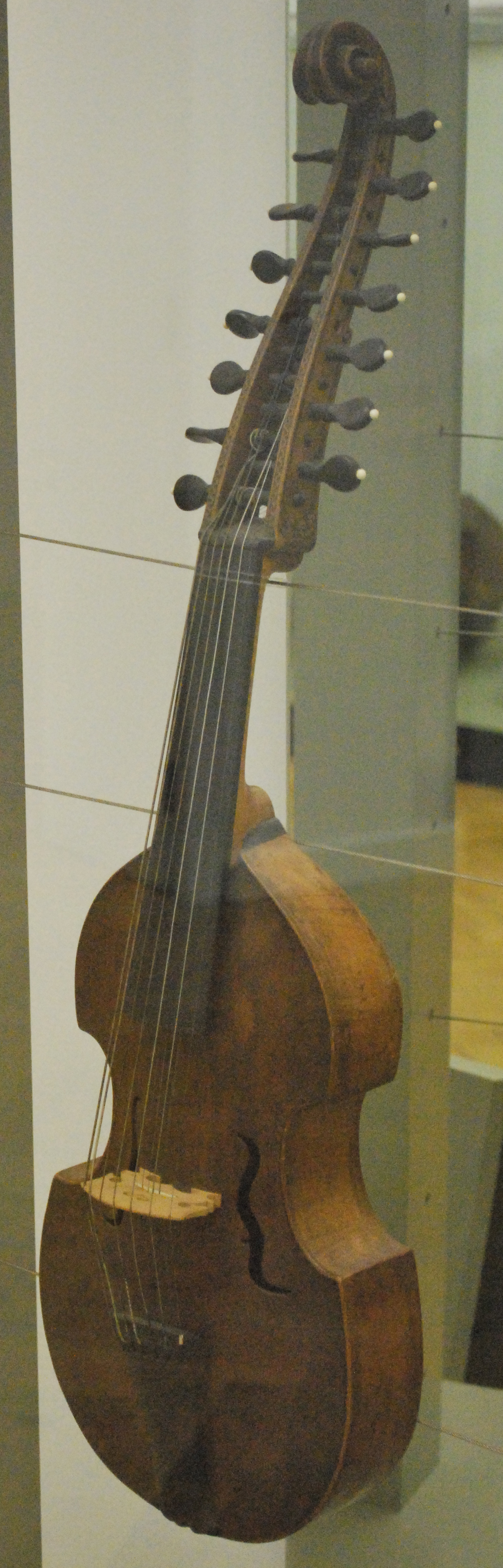 The Viola d'Amore by Raphael Möst (Füssen) from 1643 is the oldest Vioa d'Amore in the world